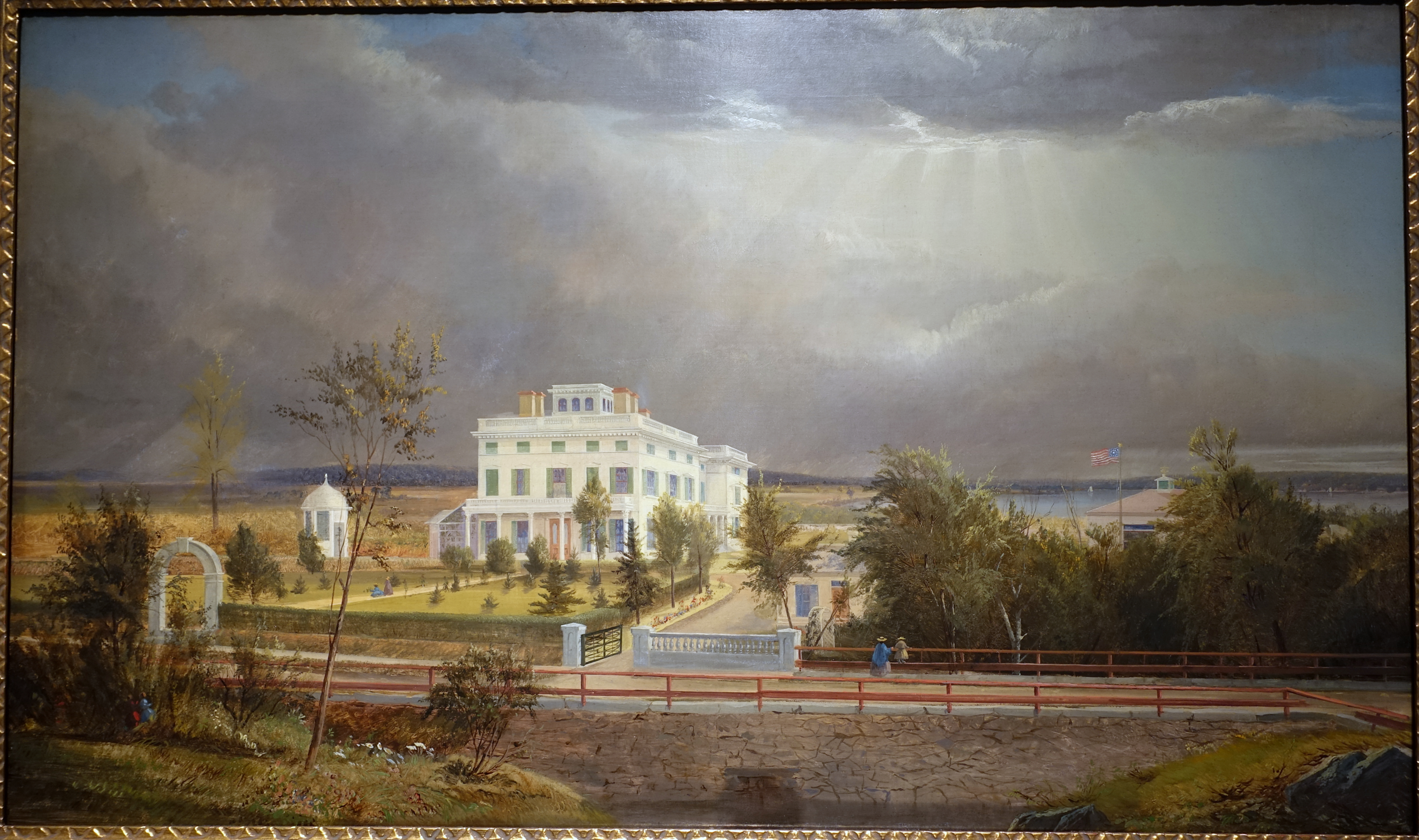 Exhibit in the Portland Museum of Art - Portland, Maine, USA.